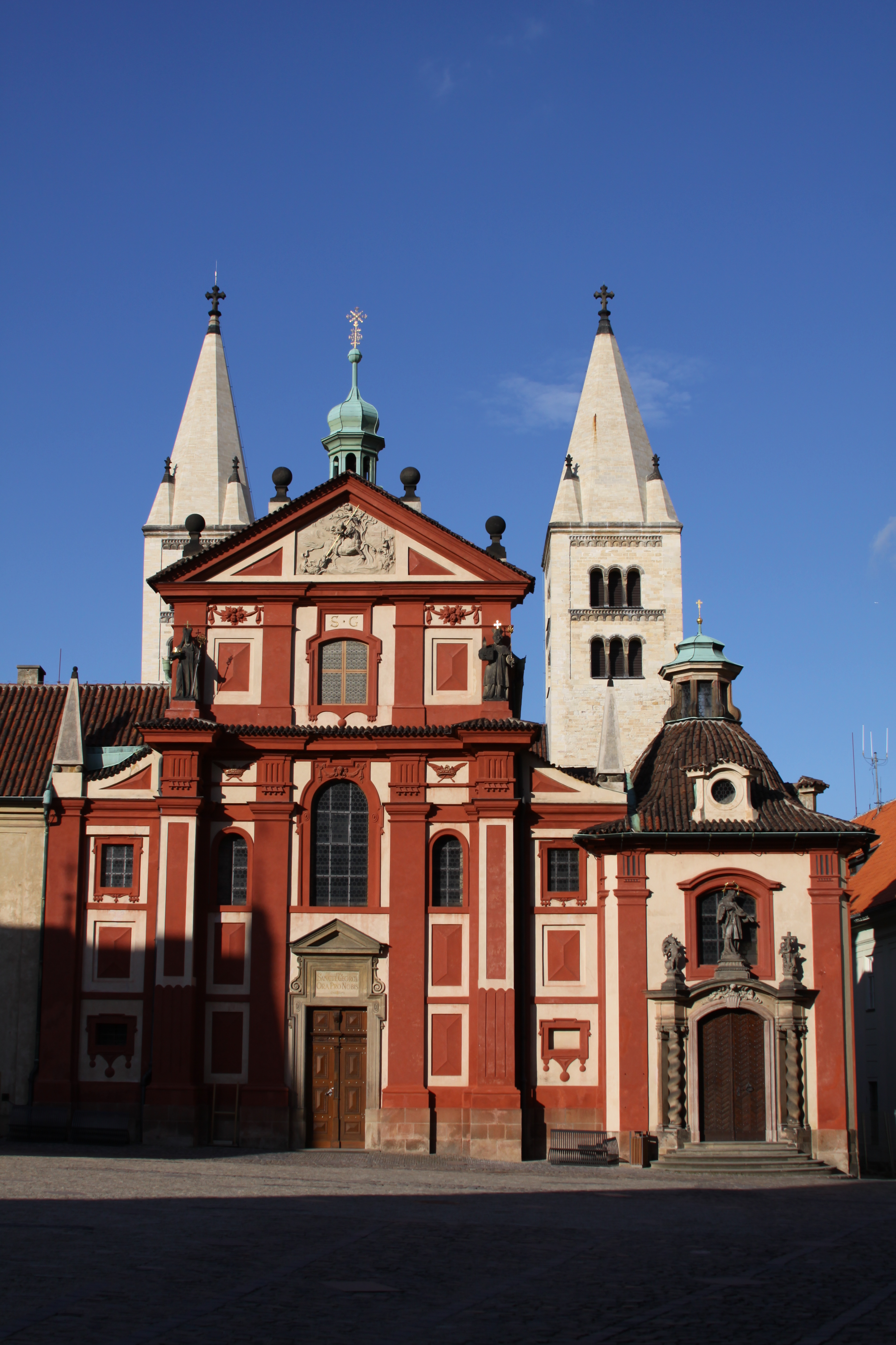 Facade of Basilika Saint George, Prague.